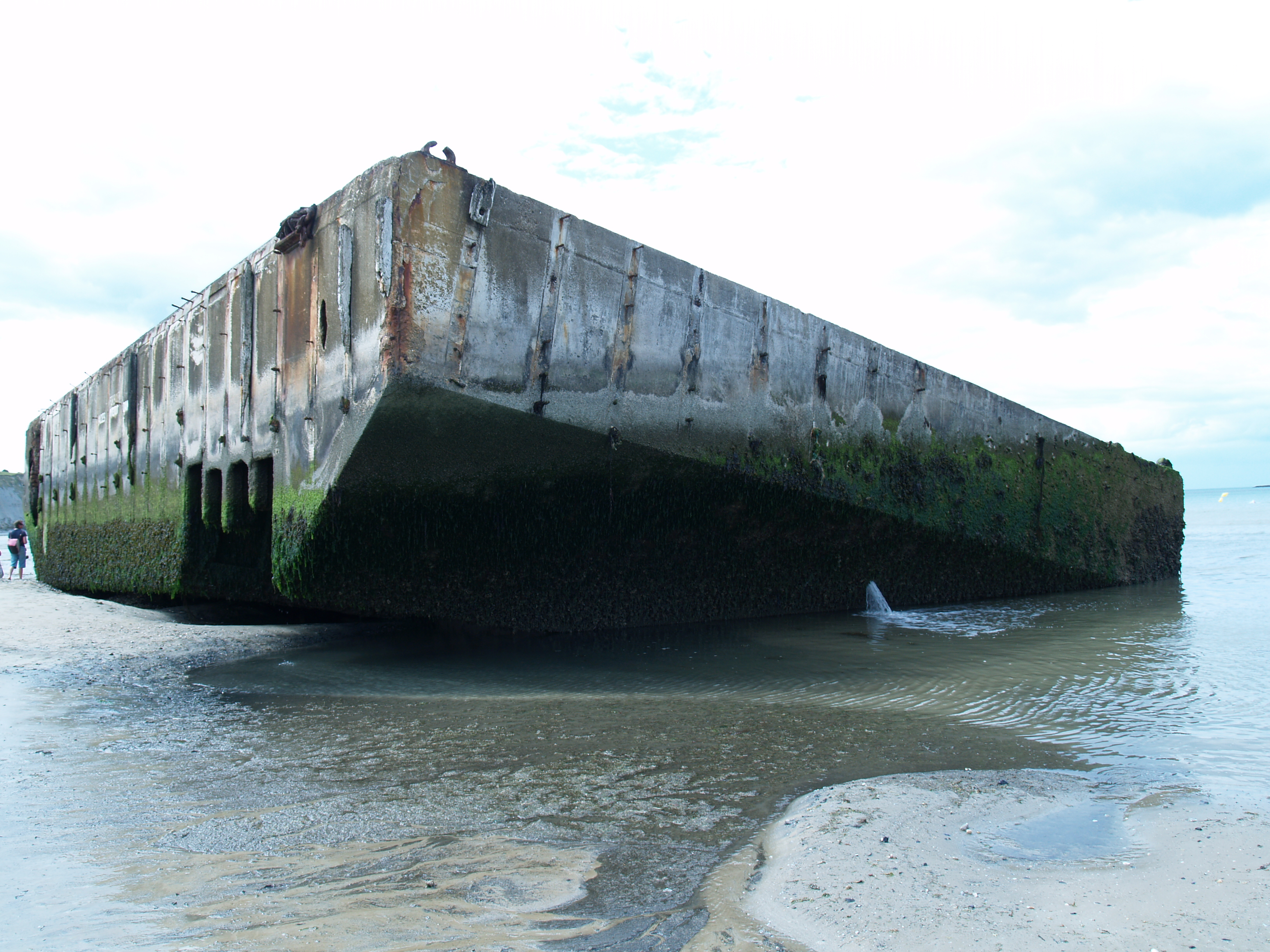 Mulberry harbour